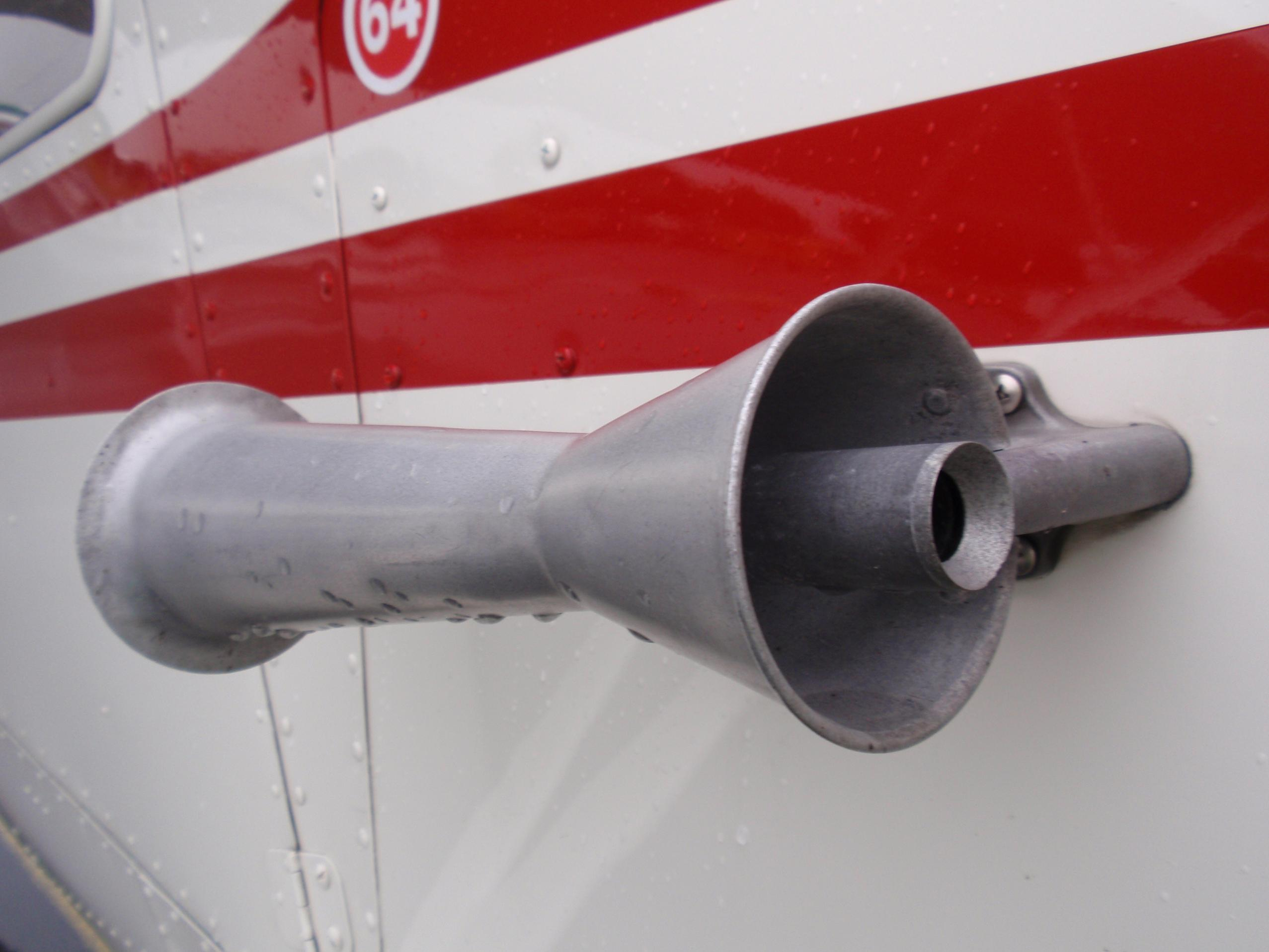 Venturi tube on Cessna 140